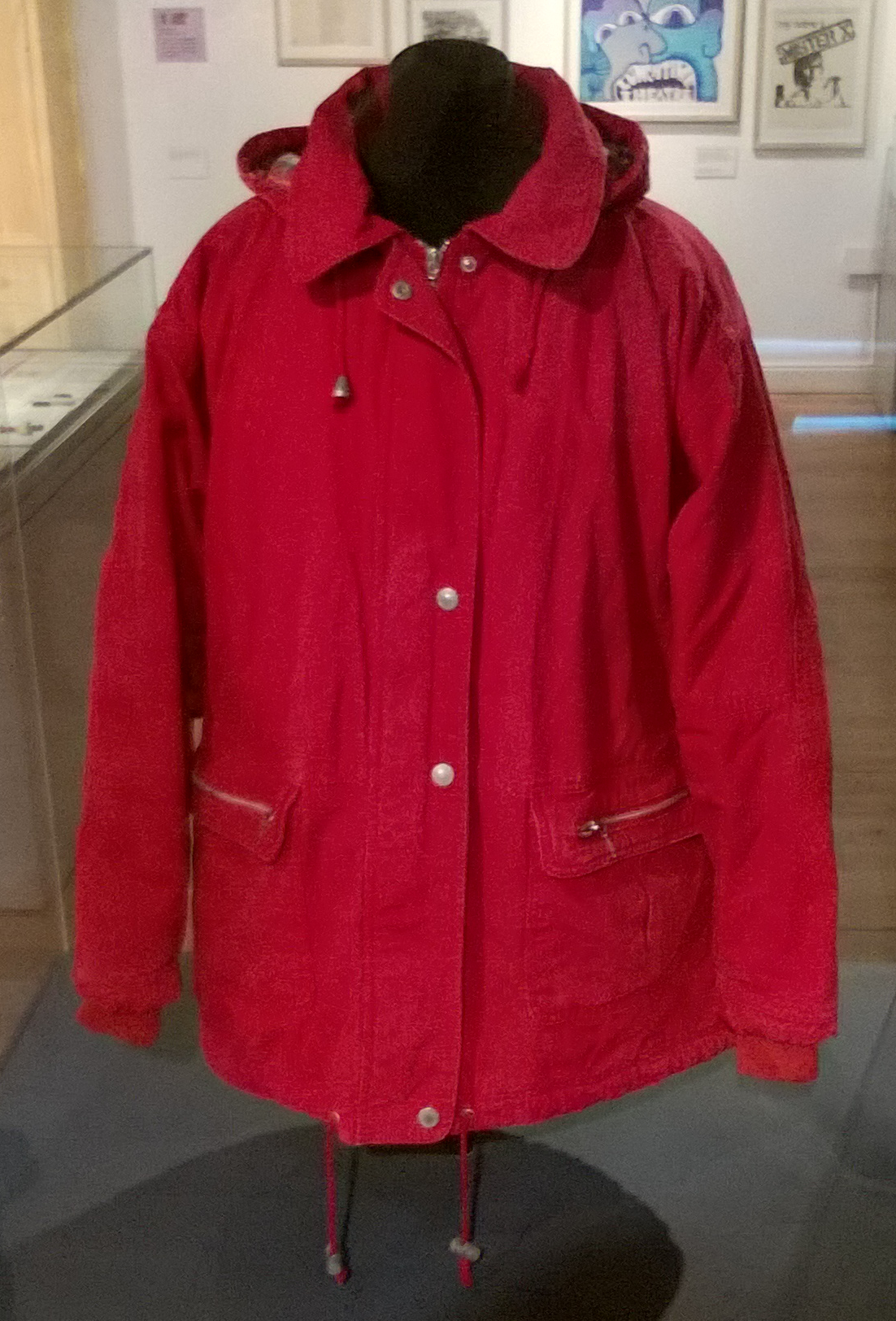 Hayley Cropper's anorak, in the People's History Museum